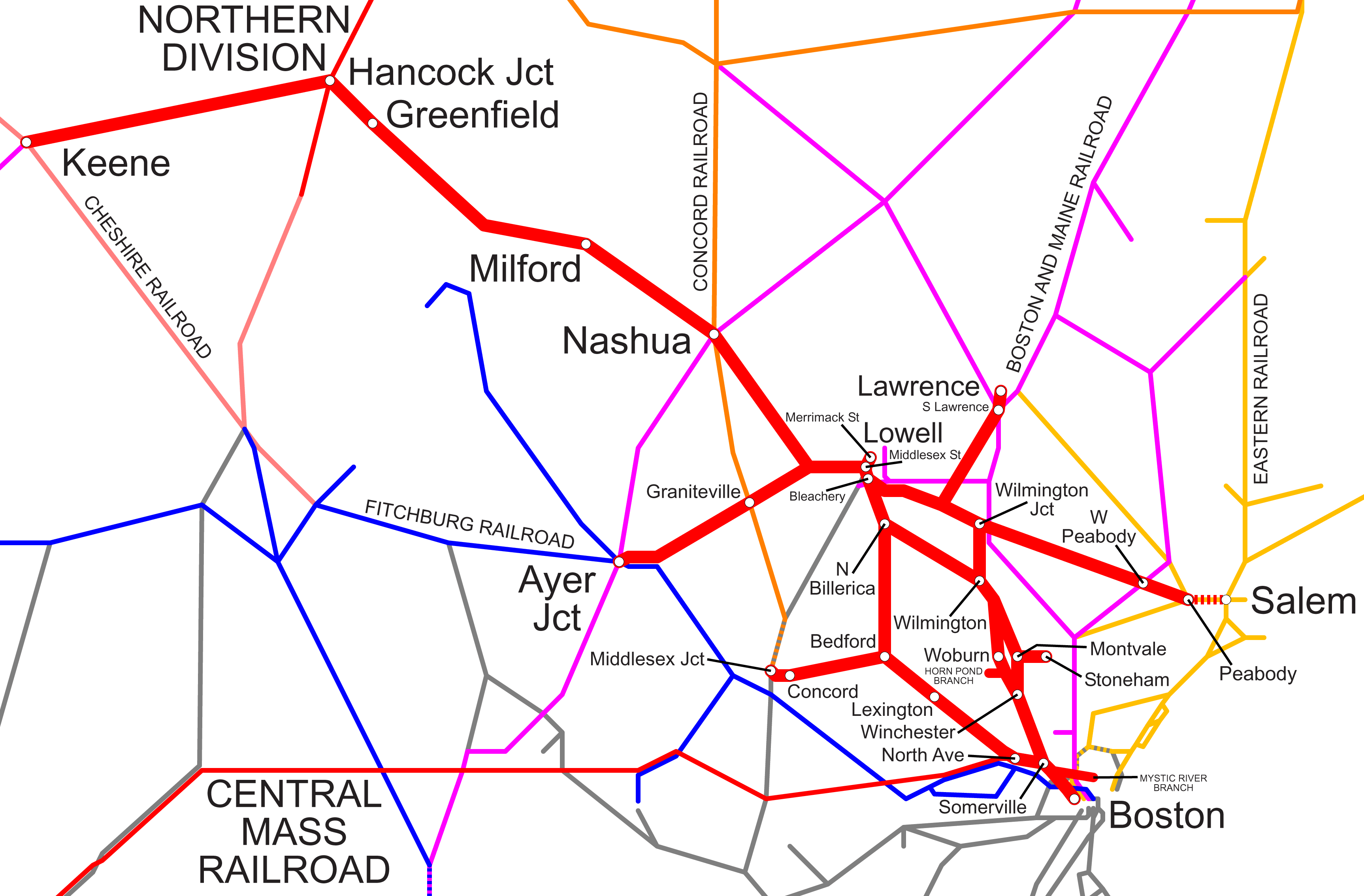 Boston and Lowell Railroad Southern Division in 1887, just before the merge with the Boston and Maine Railroad. Dashed lines indicate trackage rights.